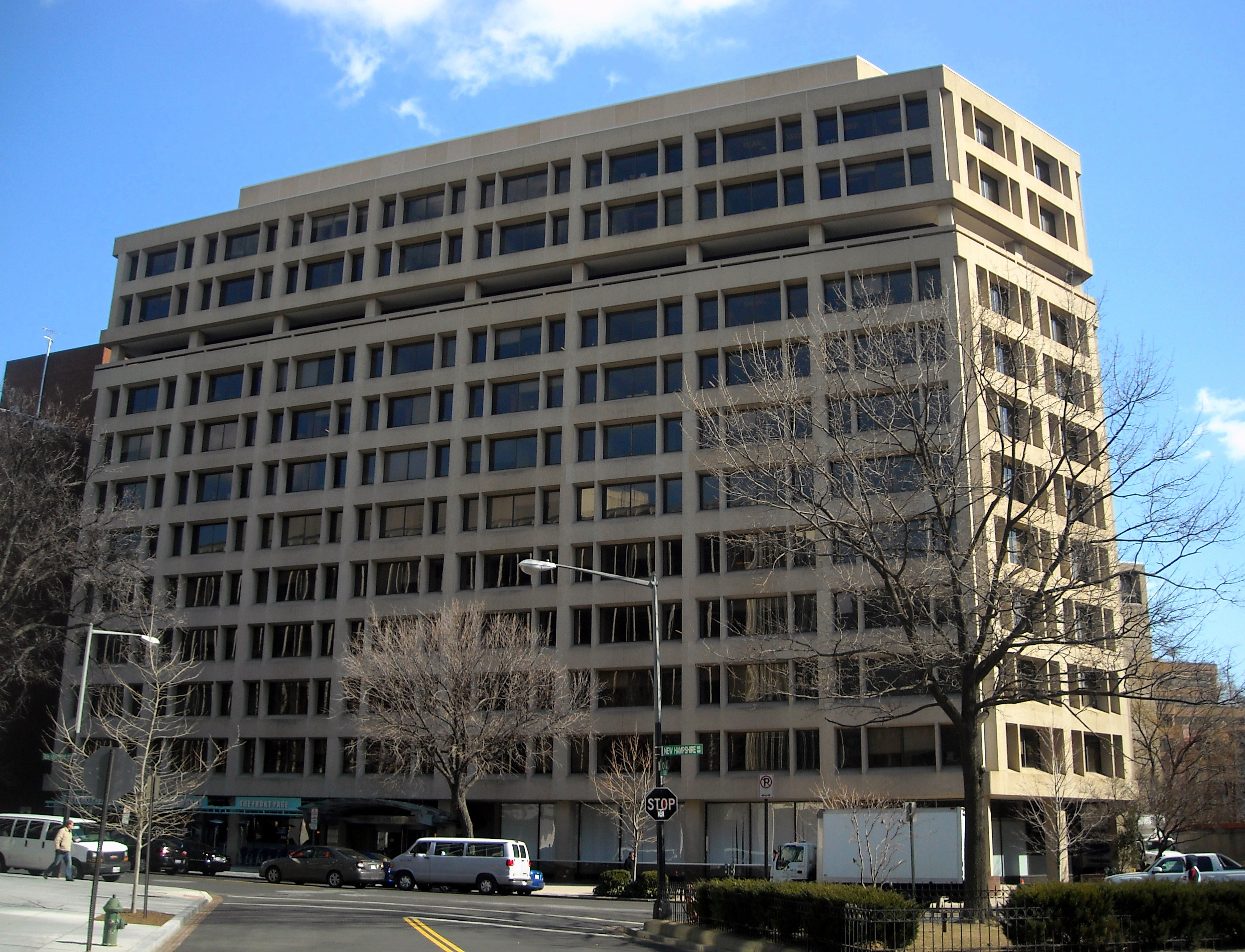 The Robert S. Strauss Building located at 1333 New Hampshire Avenue, NW in the Dupont Circle neighborhood of Washington, D.C. It was constructed in 1978 and has a 2009 tax value of $183 million dollars. Notable tenants include Akin, Gump, Strauss, Hauer, & Feld LLP.